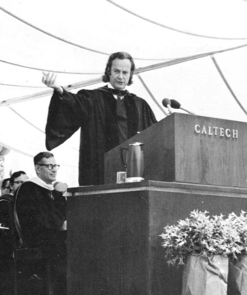 Richard Feynman giving the 1974 California Institute of Technology commencement address